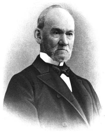 Portrait of Judge Samuel Treat (of Missouri) from a book.